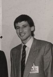 Sebastian Coe at the World Economic Forum annual meeting 1987